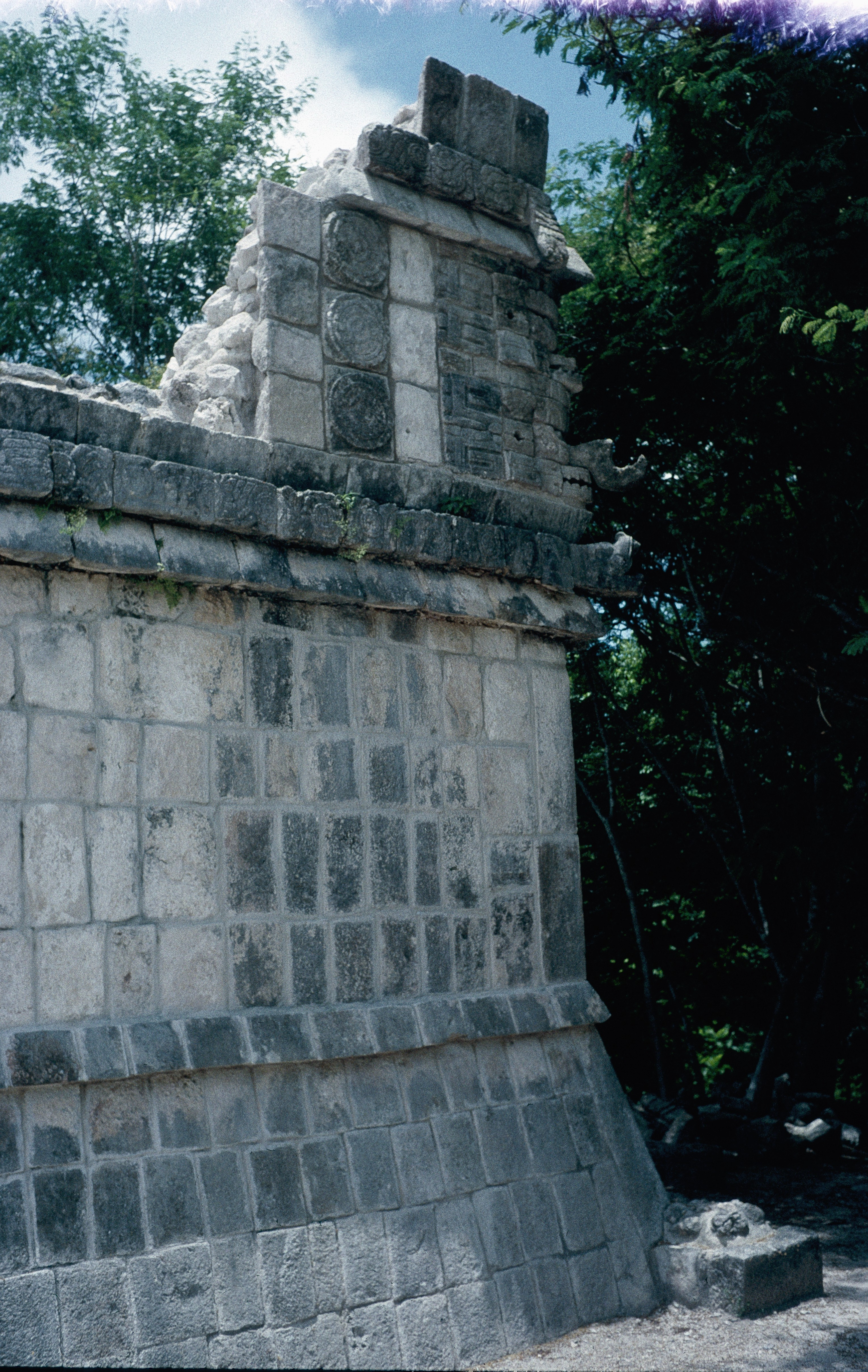 Chichen Itza, Yucatan, Mexico: building 3D5, reconstructed facade